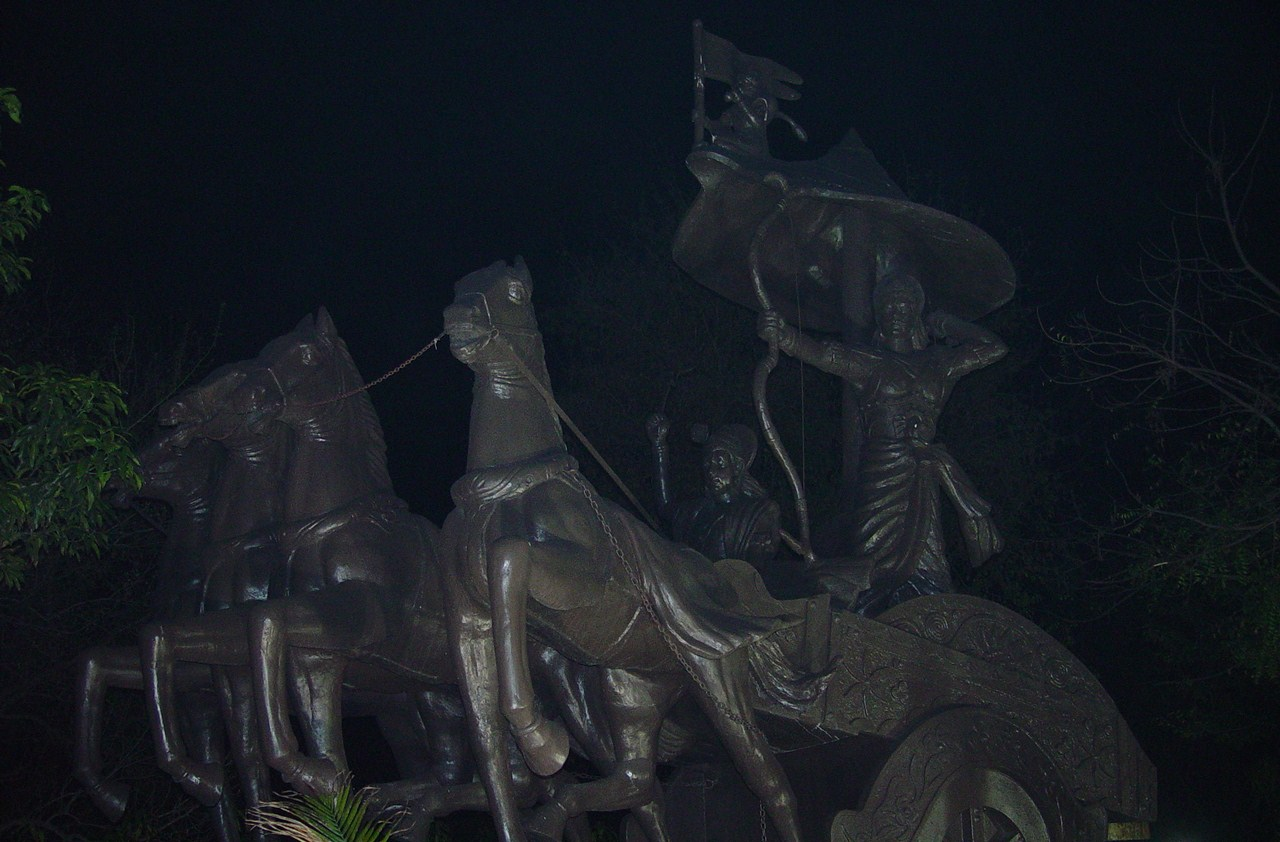 Arjun Rath at IIM Lucknow entrance